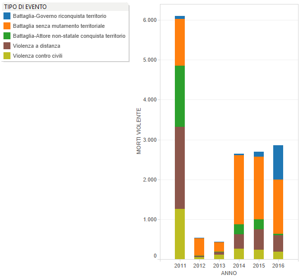 Armed conflict-related fatalities in Libya, per event type, 2011-2016. Source: ACLED